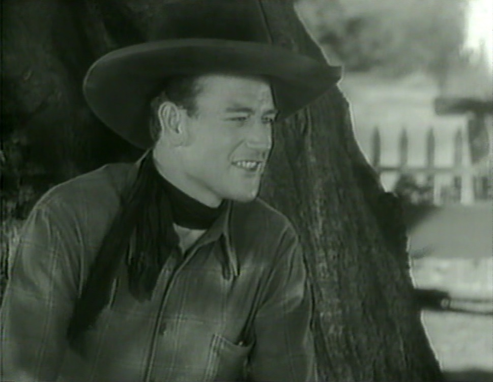 John Wayne in The Lucky Texan.